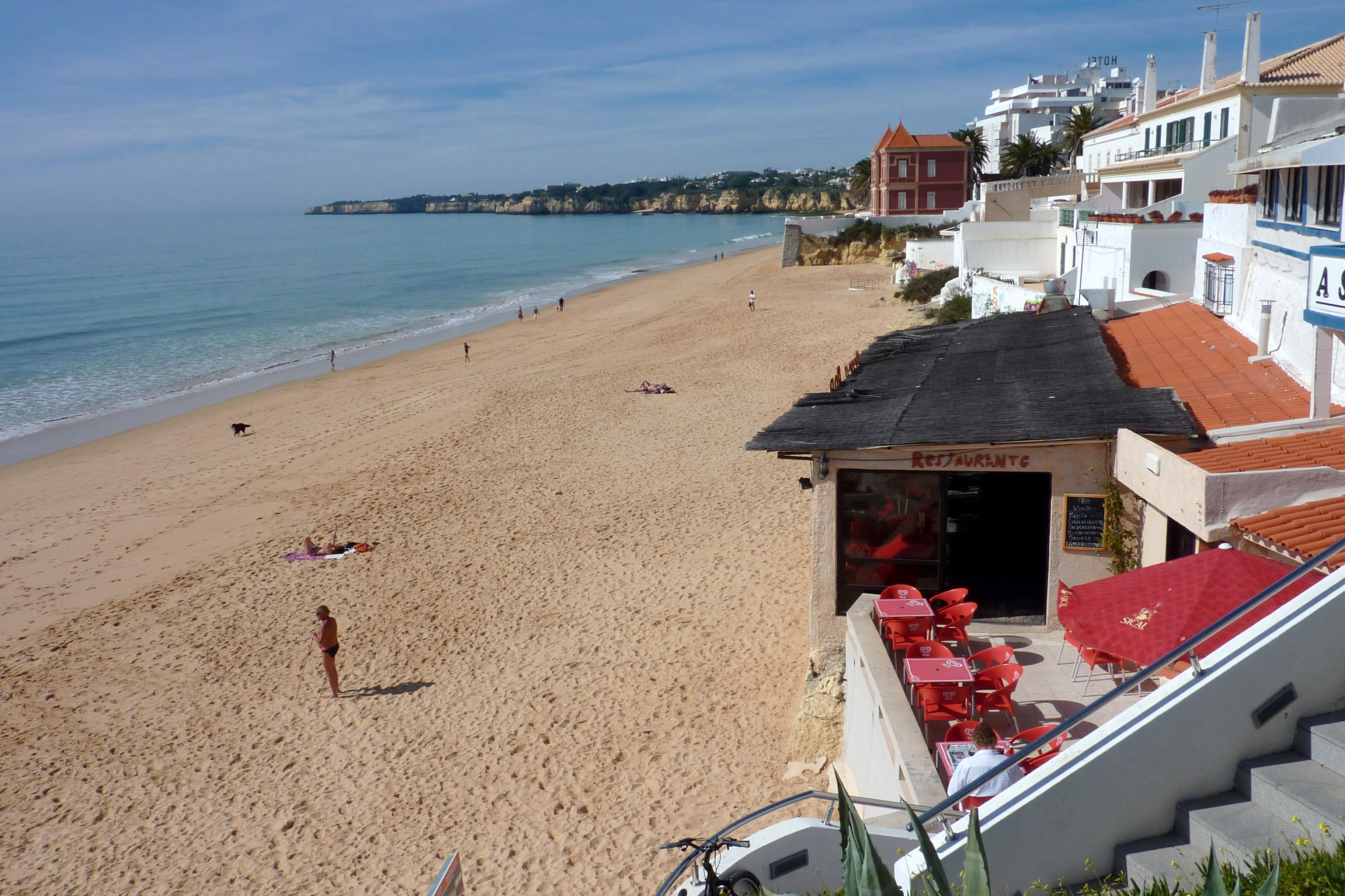 Armação de Pêra beach